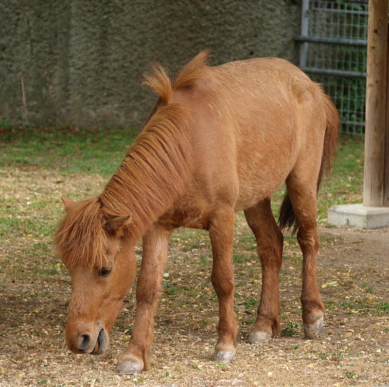 Noma-Uma (野間馬) at Tennōji Zoo, Osaka